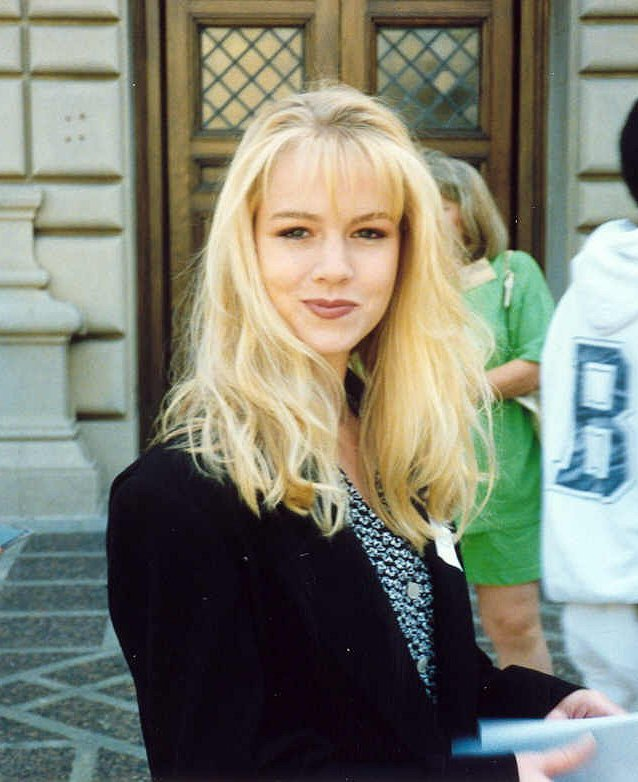 Actress Jennie Garth, Photo taken during 44th emmy awards